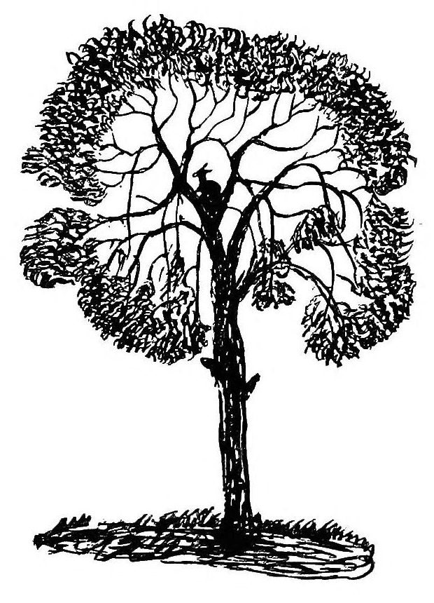 image from page 125 of "Australian Legendary Tales" by K. Langloh Parker